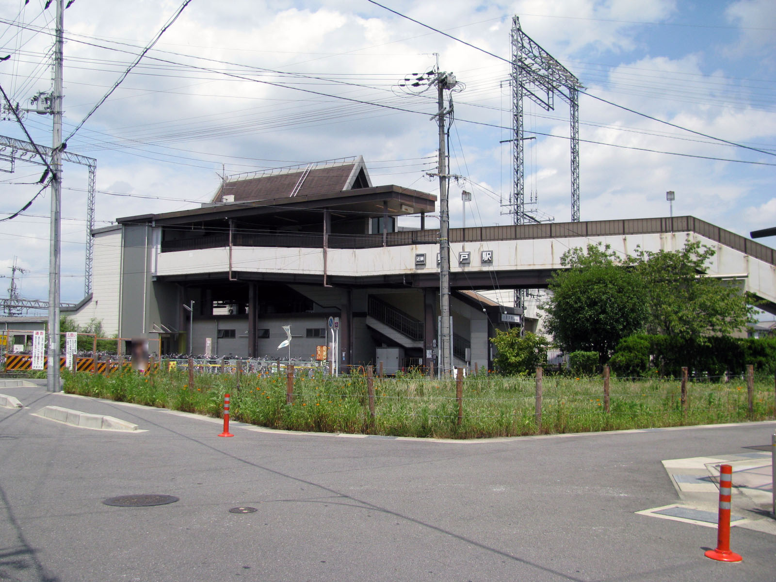 Kodo Station on Kintetsu Kyoto Line